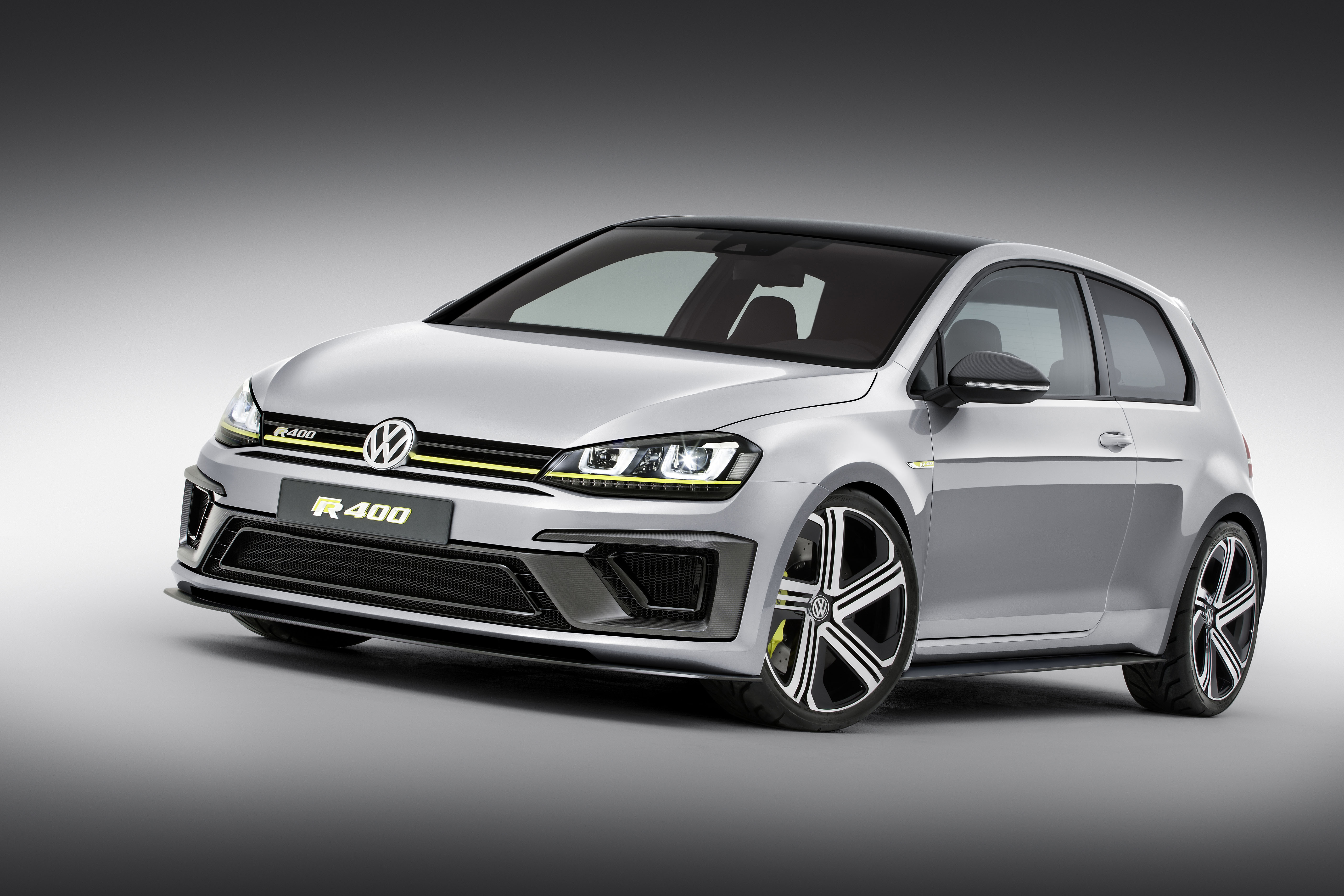 The Golf R 400, an AWD concept car built by Volkswagen in 2014. It's got the same 2.0 TFSI-engine as the regular Golf R, but a higher output, clocking in at 400 BHP.